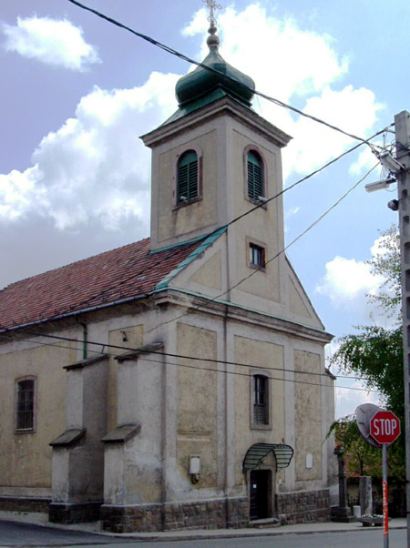 Roman catholic church in Pilisszántó (sk. Santov), Hungary